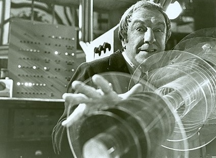 press photo of Jay Robinson as Dr. Shrinker in 1977